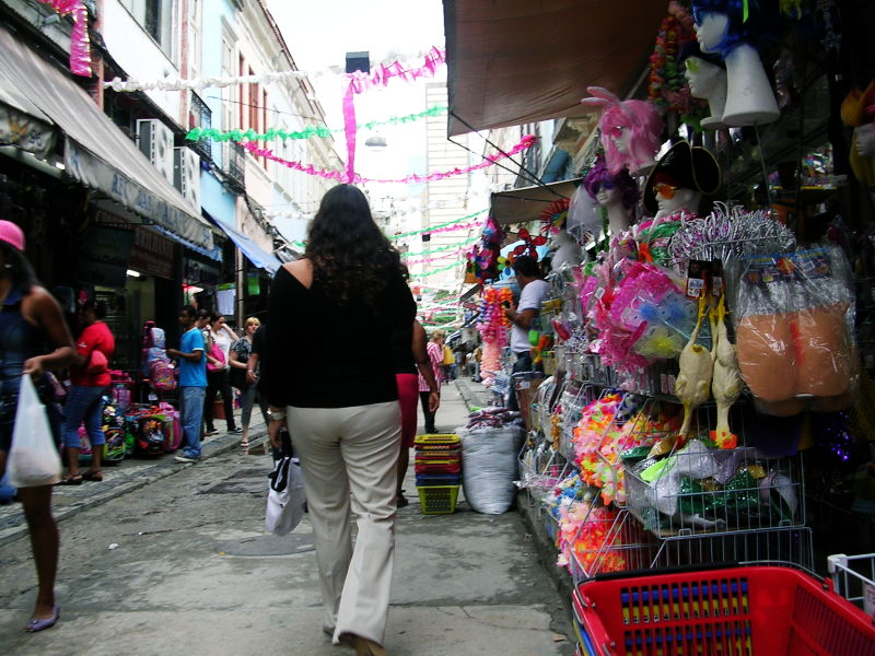 Saara market, Rio de Janeiro, Brazil